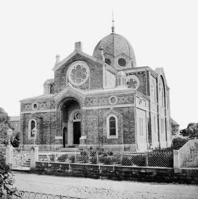 Synagogue of Göppingen in 1881, year of dedication